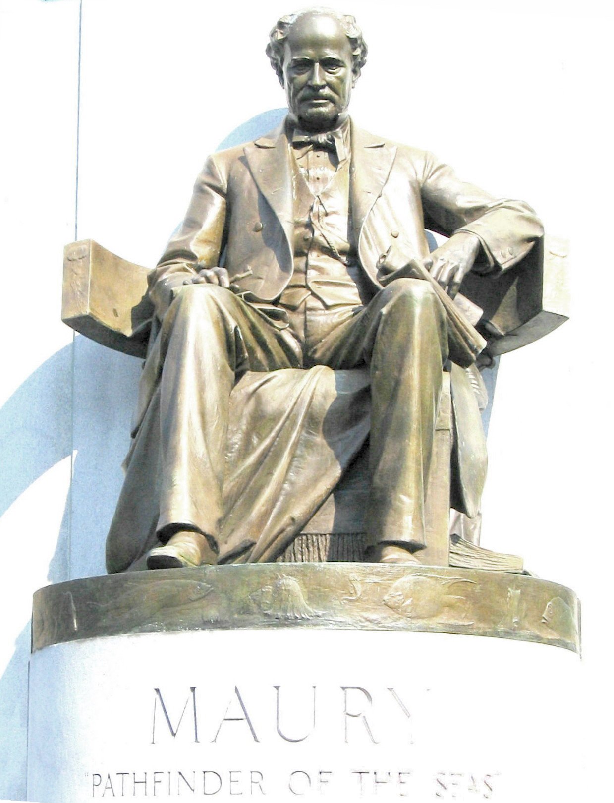 Matthew Fontaine Maury "Pathfinder of the Seas" monument in Richmond, Virginia - bottom portion only for detailed photo. Photo taken when I lived in Richmond, and all of the the monuments on Monument Avenue were being cleaned of patina by professionals and preserved from acid rain.